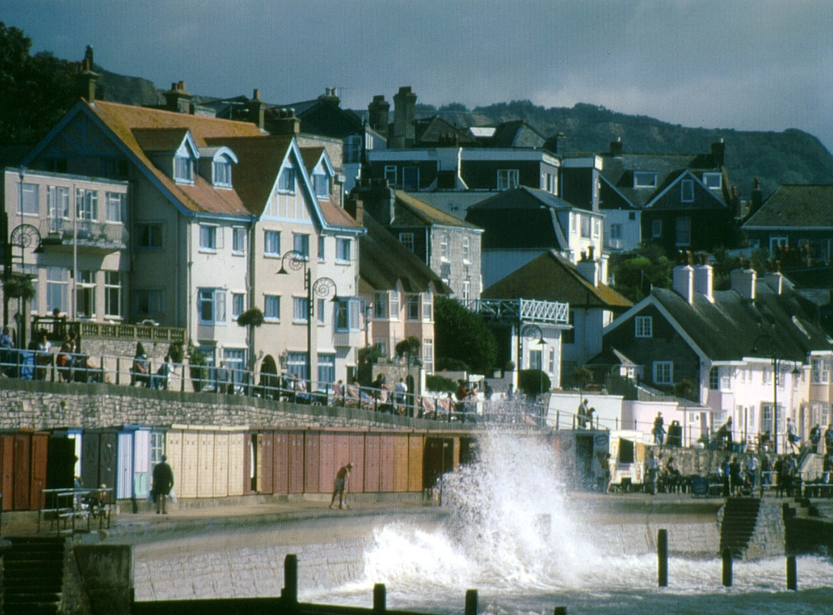 Photo from The Cobb towards the Front Beach.